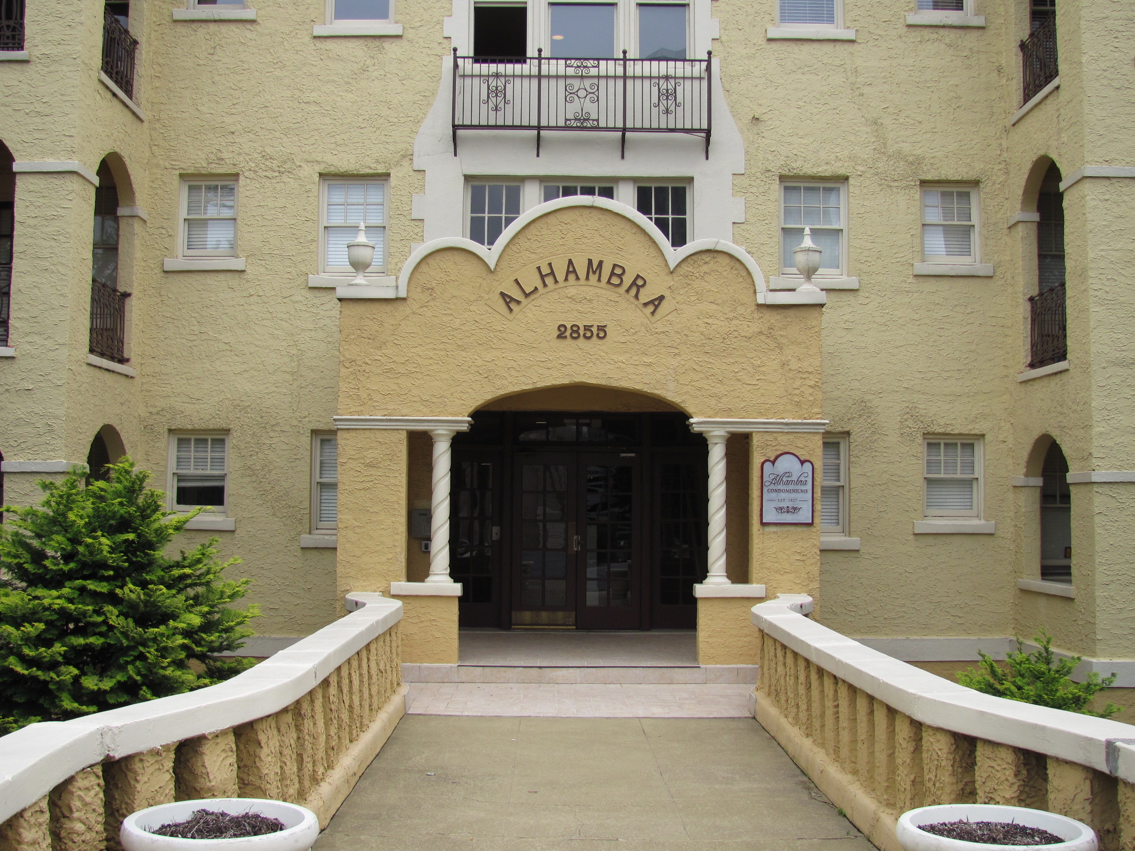 Alhambra, Garden Hills, Atlanta Georgia, May 2010